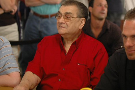 John Bonetti in 2005 World Series of Poker (WSOP) at the Rio, Las Vegas